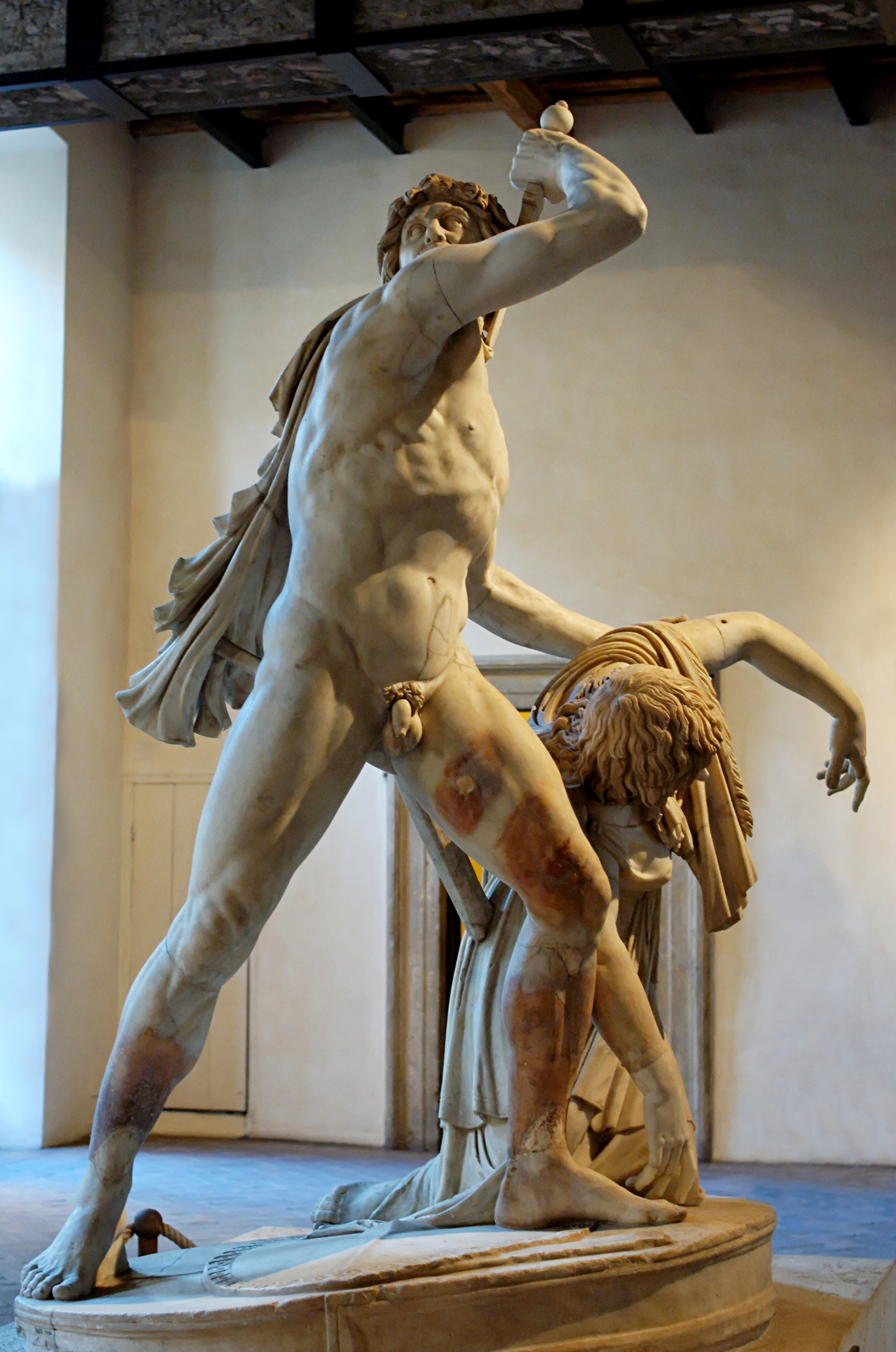 So-called Ludovisi Gaul and his wife. Marble, Roman copy after an Hellenistic original from a monument built by Attalus I of Pergamon after his victory over Gauls, ca. 220 BC.